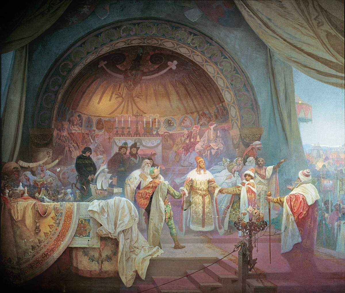 King Přemysl Otakar II of Bohemia (1253-1278)